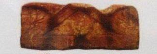 Lided crate made of lime stone, lead. wood or marble, often with a decorated relief, where the dead body was laid in antient Greece or Rome.